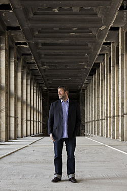 Portrait of Karl-Heinz Müller, photographed by Matti Hillig. The photo was taken in the Ehrenhalle of the former Airport Tempelhof, Berlin on May 24, 2011. Karl-Heinz Müller is founder and CEO of the fashion trade show Bread & Butter. The trade show as well as the administrative office of Bread & Butter is currently based in Berlin, Germany. High-resolution versions of this and more photos are available. Please contact me